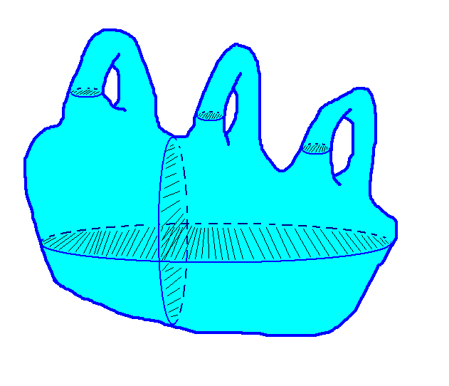 genus three handlebody with several properly embedded disks